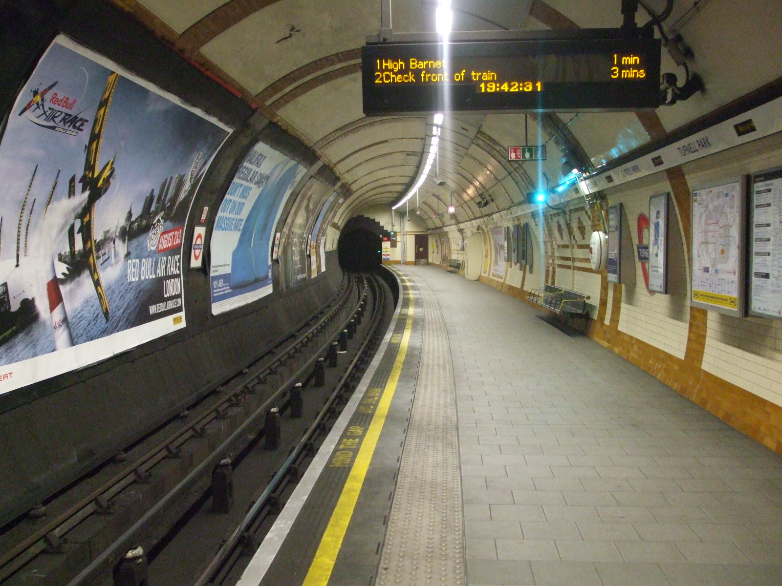 Tufnell Park tube station northbound platform looking north